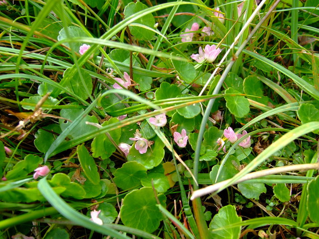 Bog pimpernel (Anagallis tenella) A rare creeping plant of acid bogs, with tiny pink flowers delicately lined.